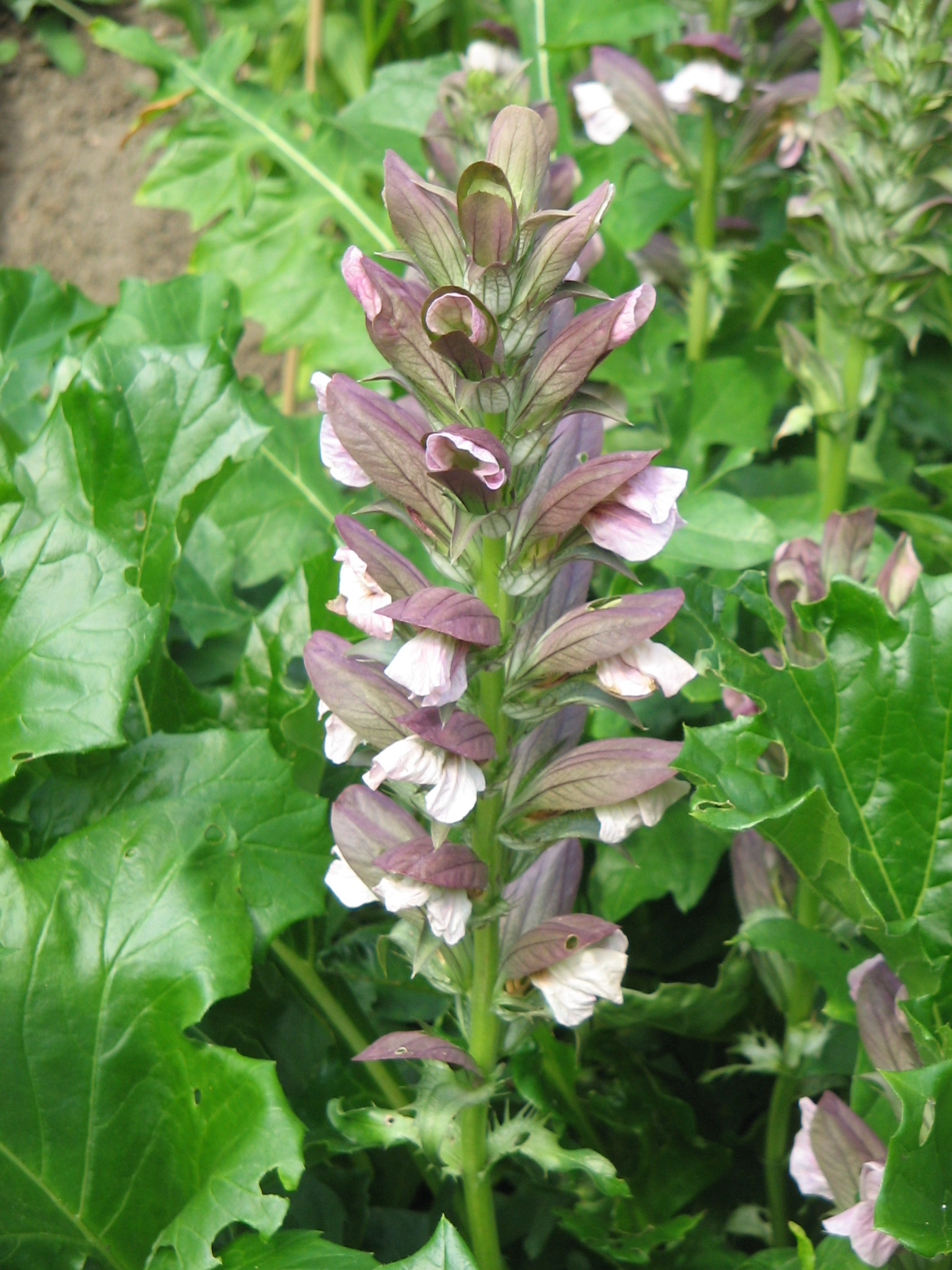 Acanthus mollis